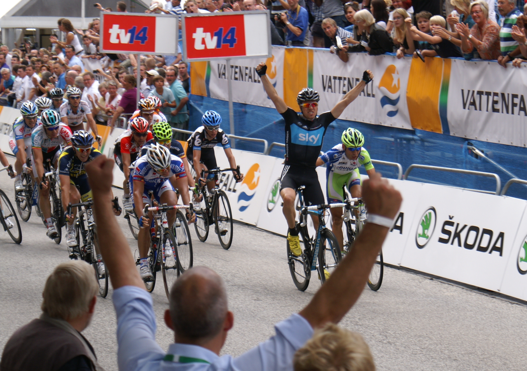 Vattenfall Cyclassics 2011, Sieger Edvald Boasson Hagen